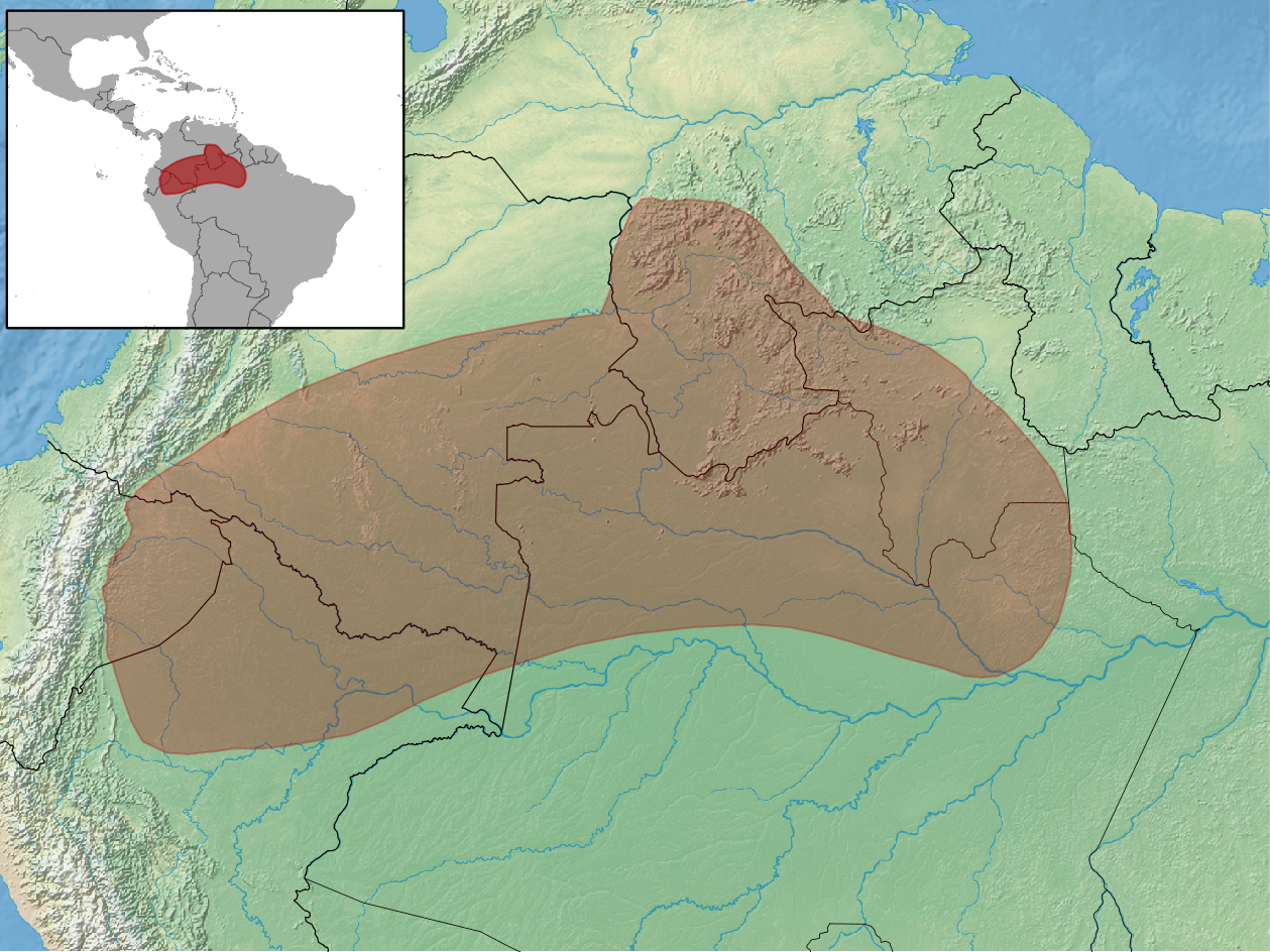 geographic distribution of Proechimys quadruplicatus